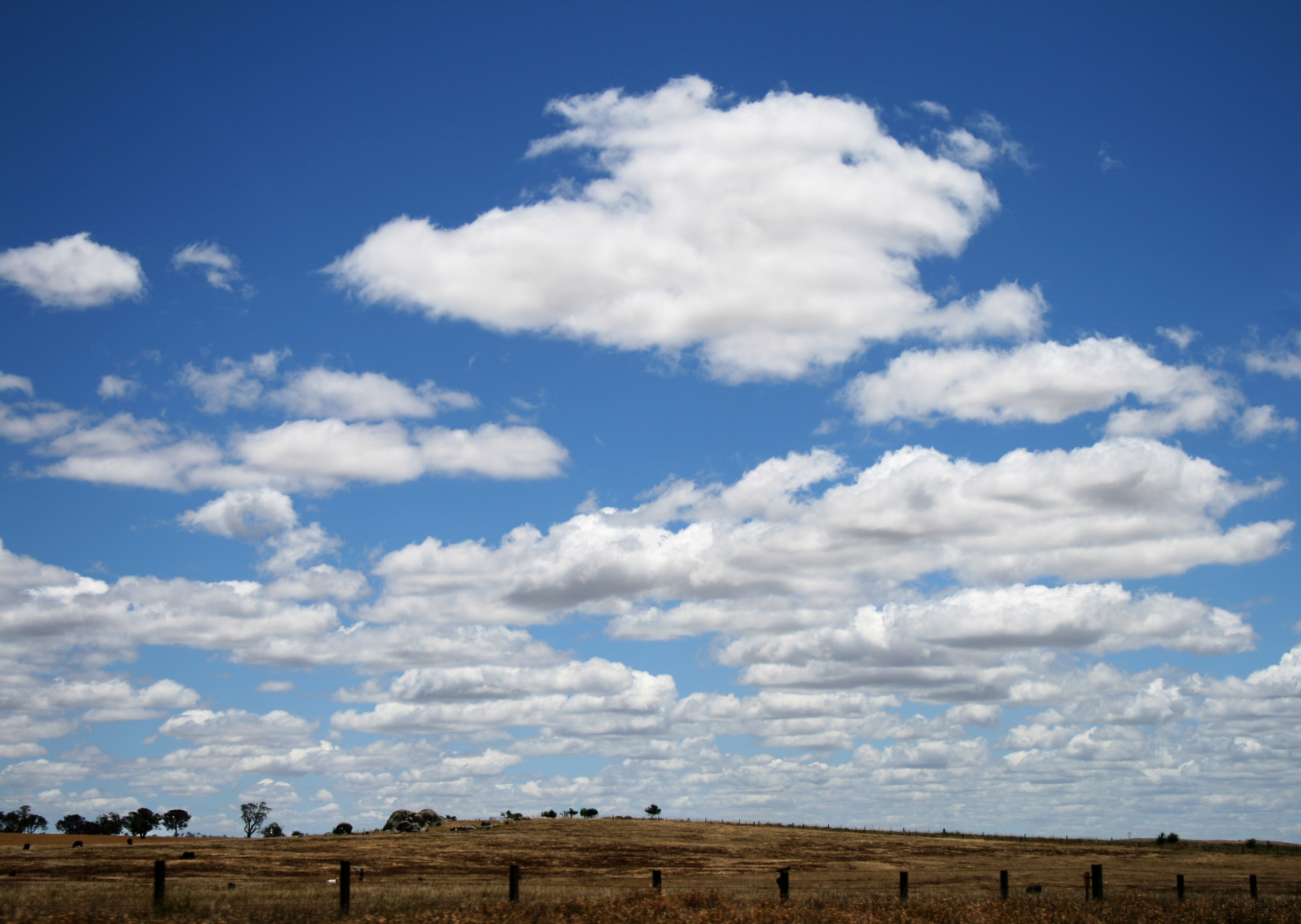 Cumulus humilis clouds over a pastoral area in the Southern Tablelands of New South Wales, Australia. In the foreground some cattle and spring calves can be seen. Location is approximate (12 minutes by car outside Goulburn).